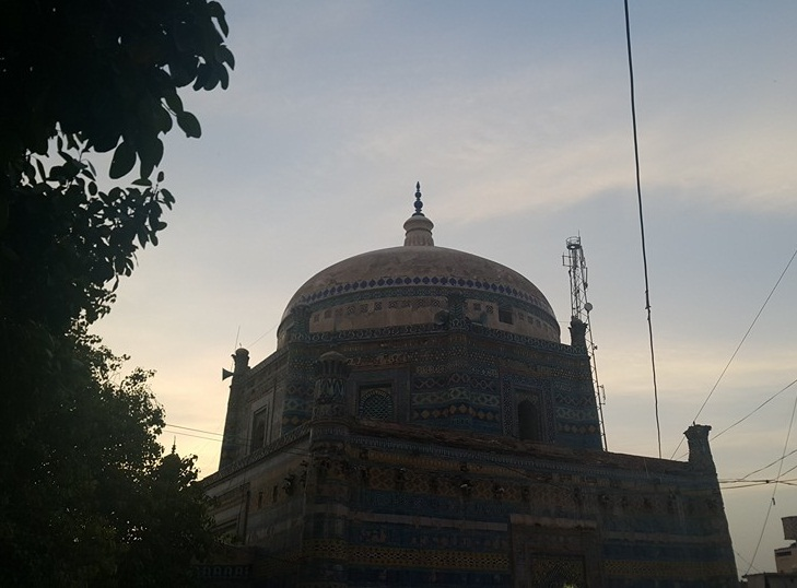 Its the image of Darbar of Hazrat Peer Qattal The Great Scholar and Walli ALLAH